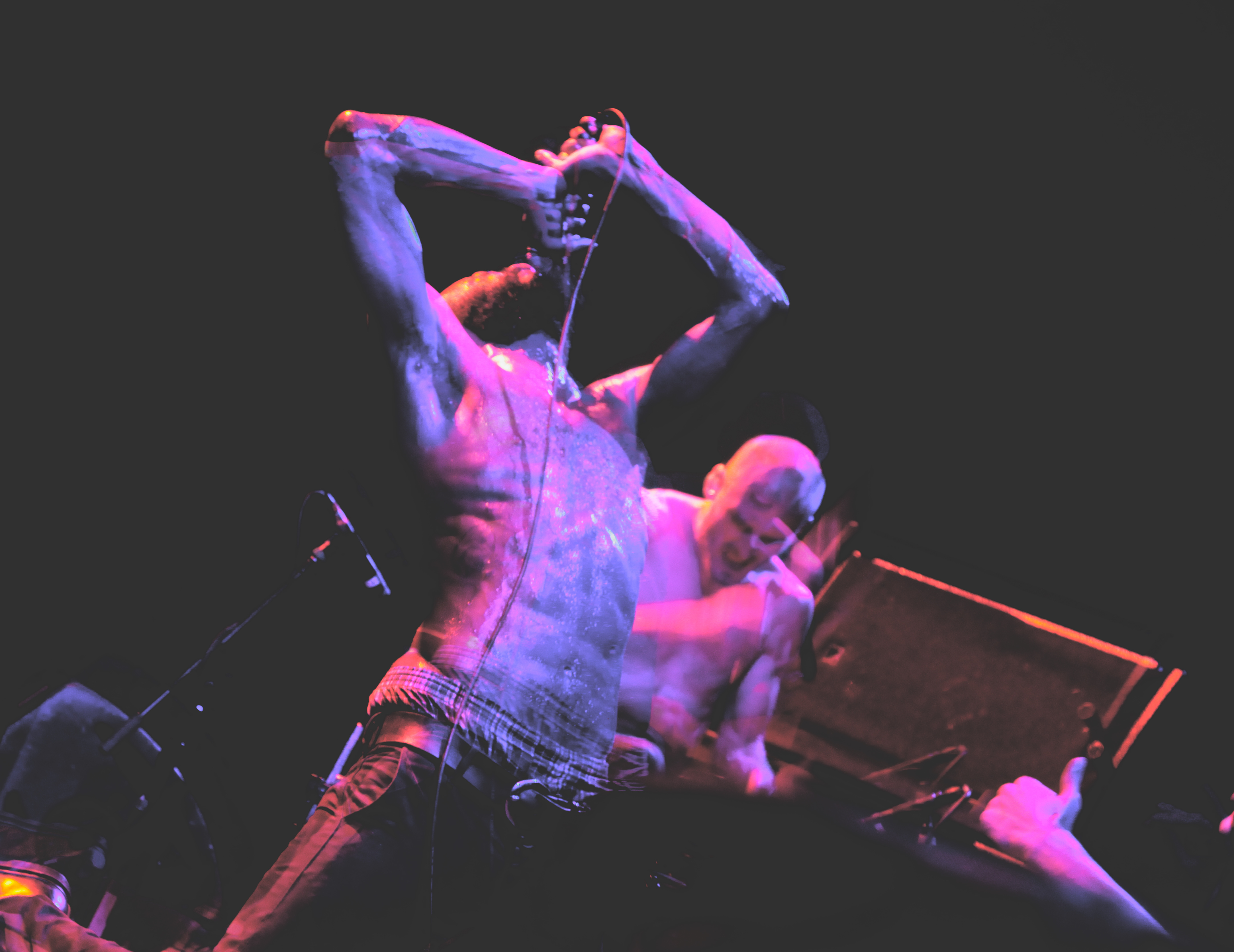 Death Grips performing in NYC Photo by Kenny Sun.